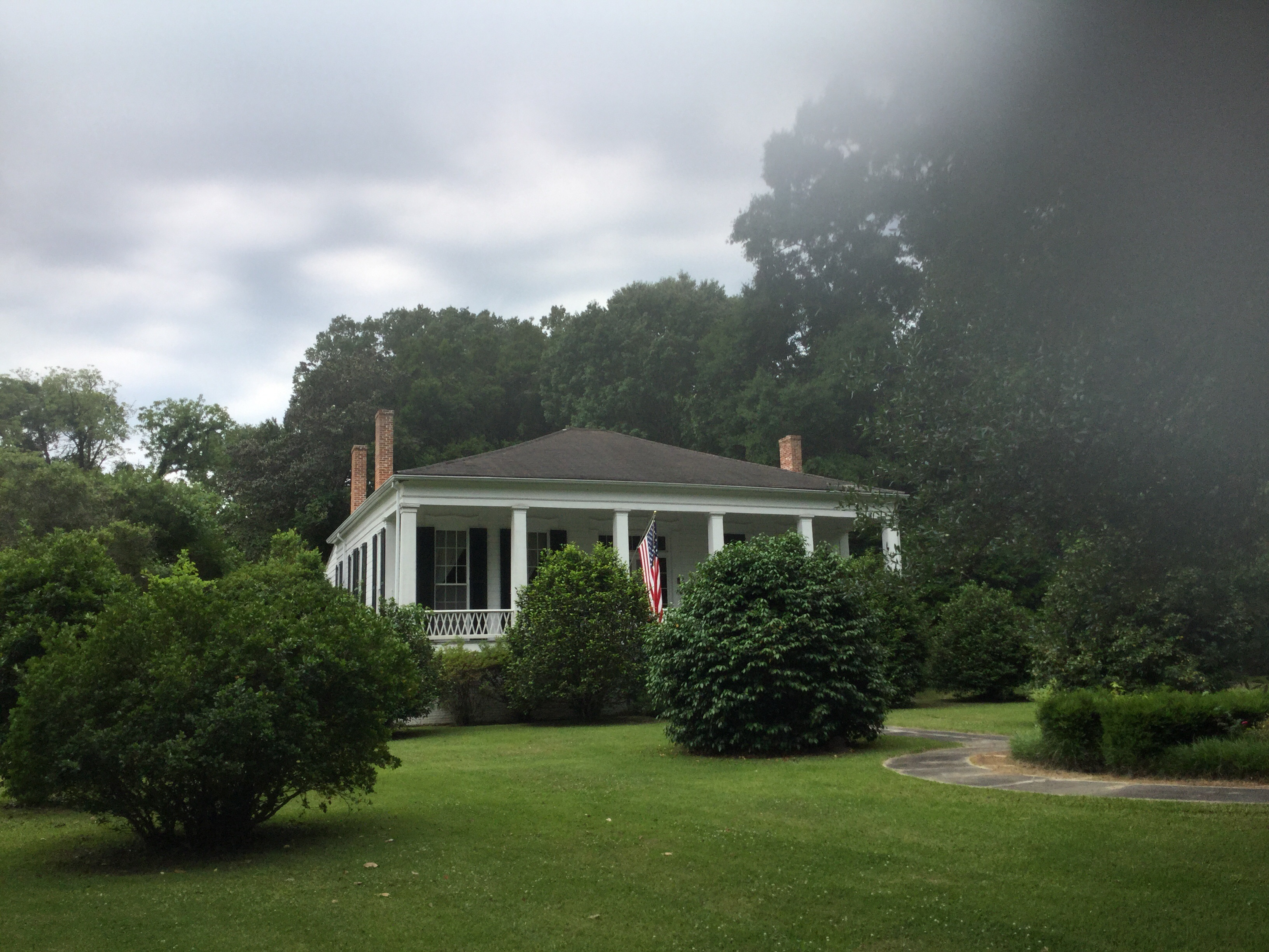 Idlewild